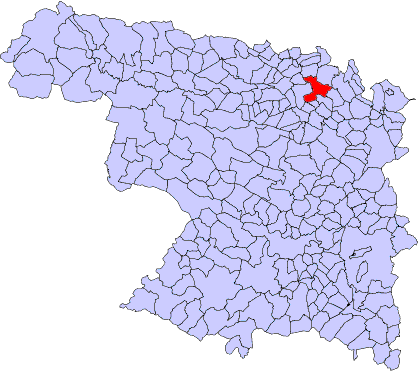 Location of Benavente, municipality of Zamora, Spain.